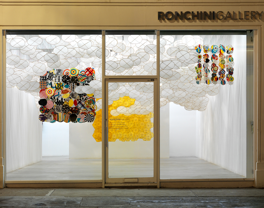 RonchiniGalleryExteriorJacobHashimoto